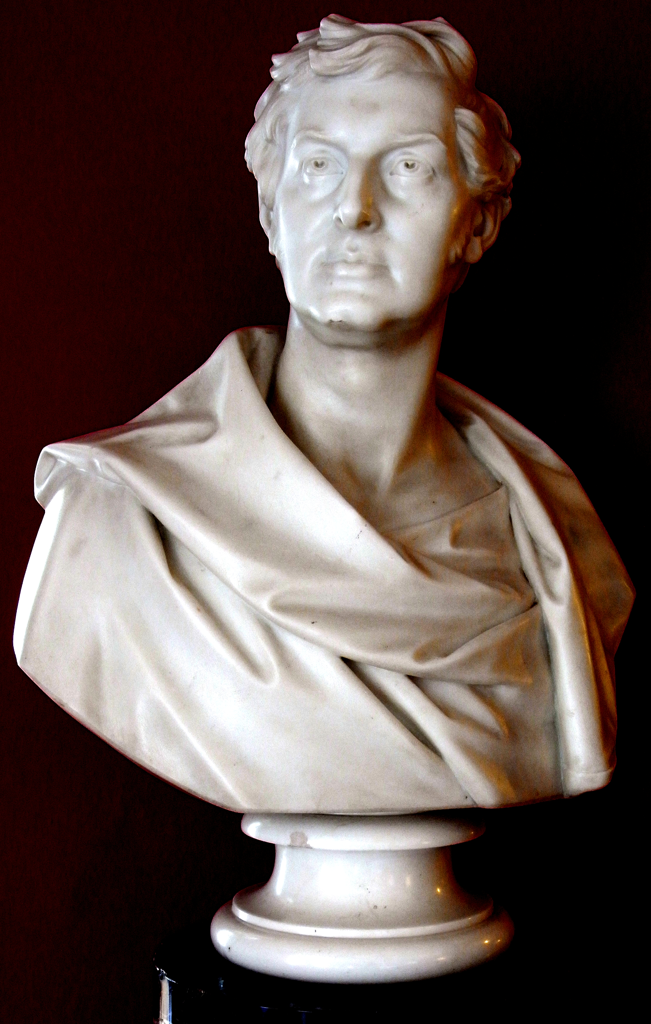 1844 marble bust of Sir Thomas Dyke Acland, 10th Baronet (1787-1871) by Edward Bowring Stephens; Killerton House, Devon. (Signed on base: "E B Stephens Sculp London 1844")